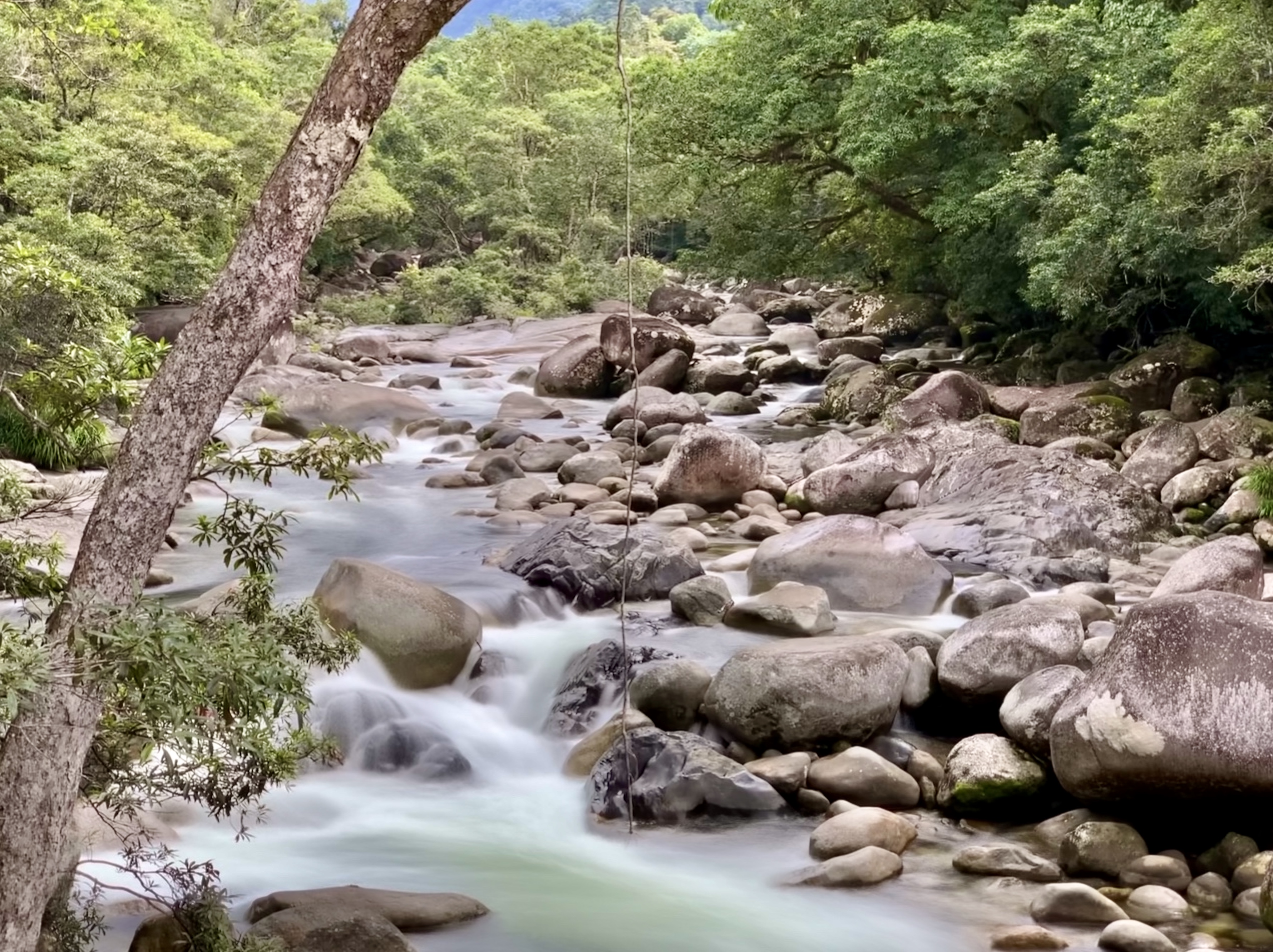 Mossman Gorge, Queensland, July 2020